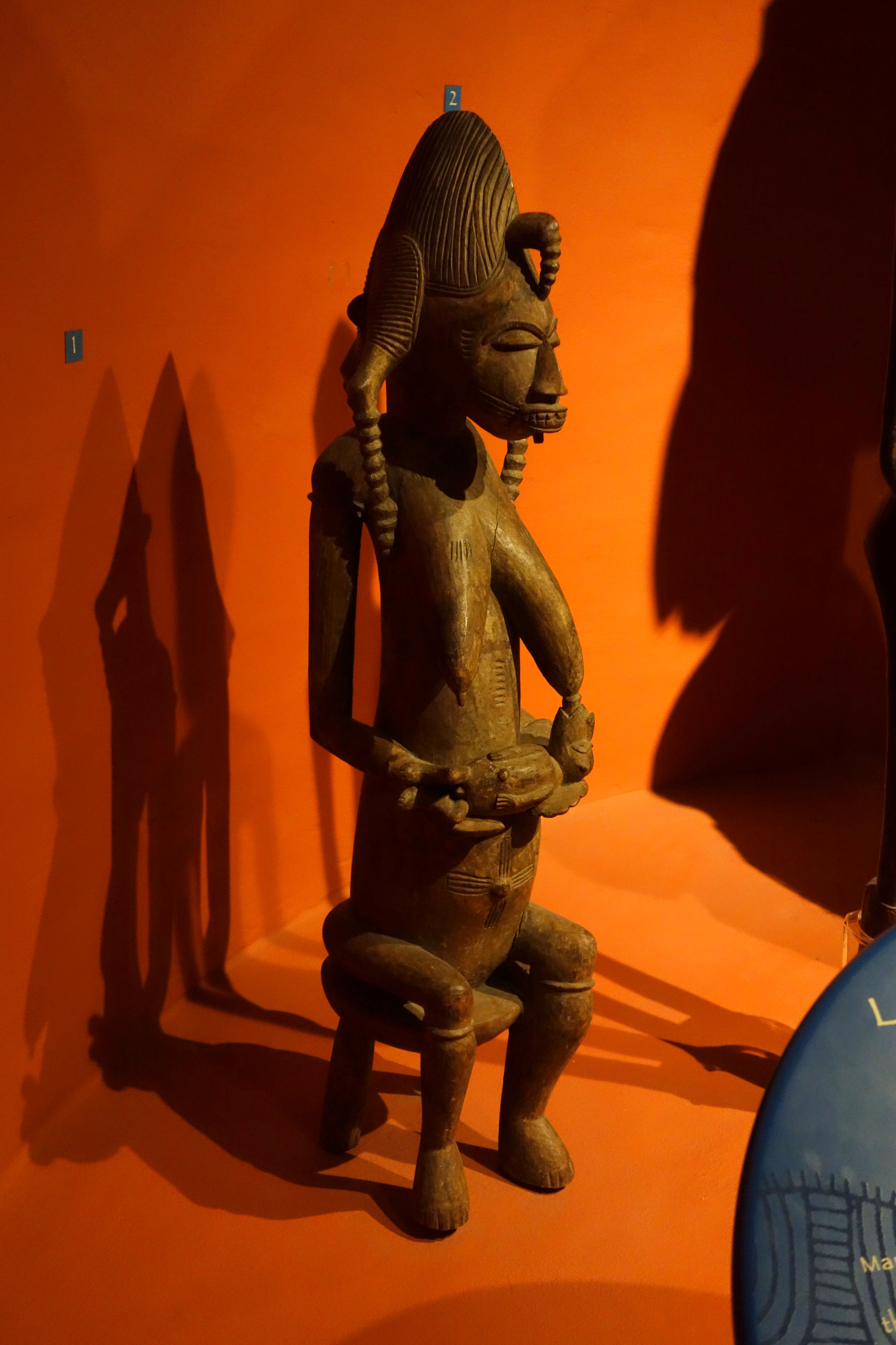 Exhibit in the Glenbow Museum, 130 9th Ave S.E., Calgary, Alberta, Canada. This artwork is old enough so that it is in the public domain.